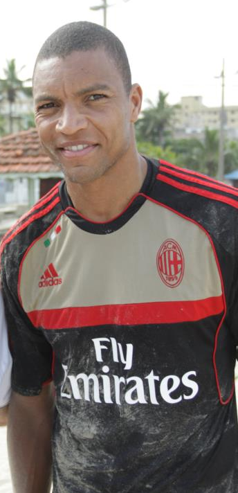 Brazilian goalkeeper Dida.